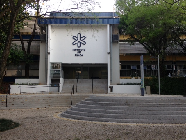 Nova entrada do instituto de Física